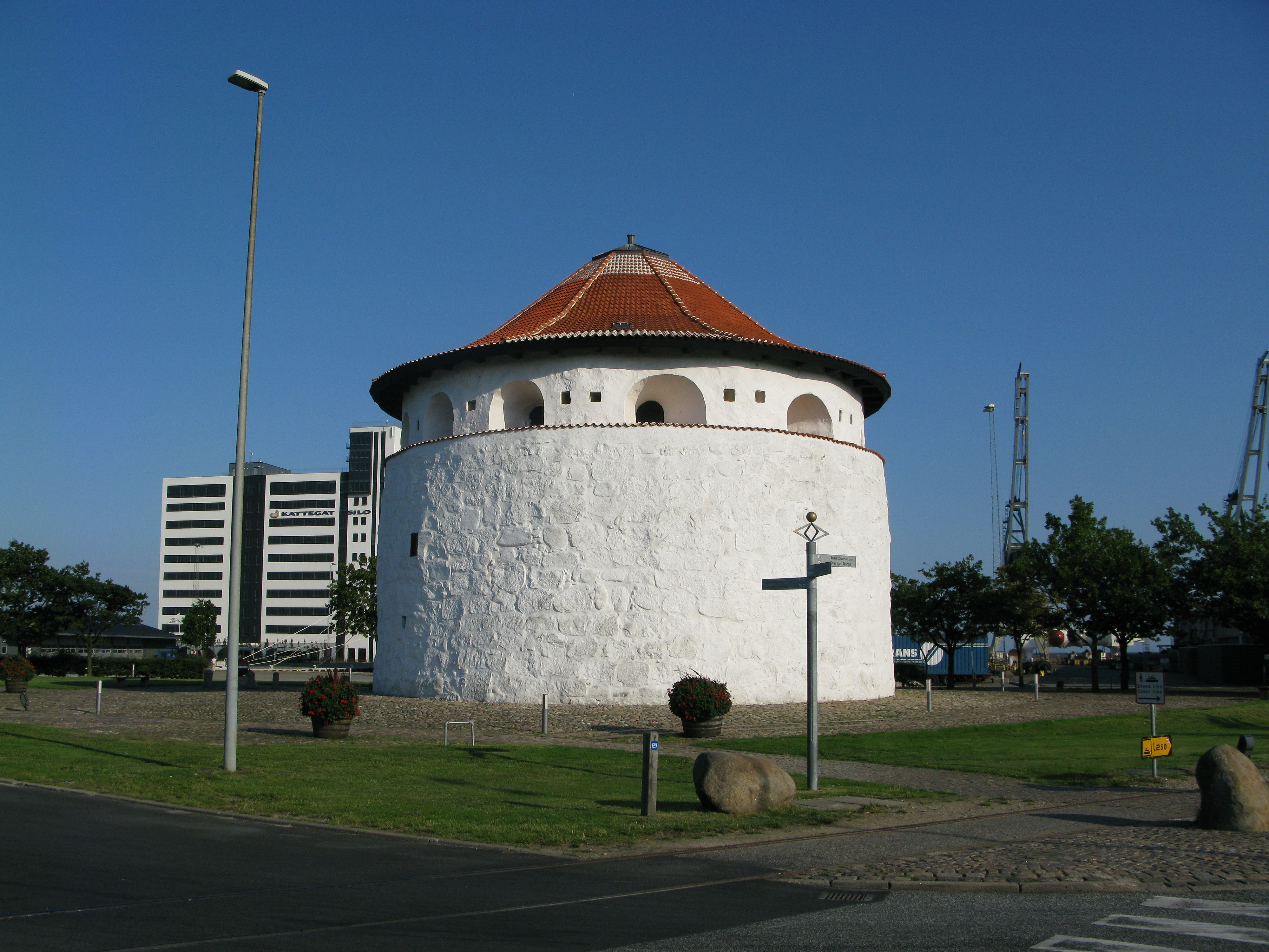 medieval tower "Krudtaarnet" in Frederikshavn, Northern Denmark